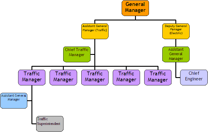 Management structure of the BEST. Source: Made by me, User:Nichalp =Nichalp User talk:Nichalp «Talk»= Management structure of the BEST. Source: Made by me, =Nichalp «Talk»=